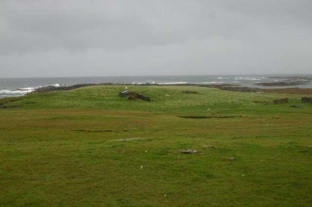 Shillay cottage, Monach Islands, Scotland This deserted cottage is the sole remaining habitation on Shillay; it was formerly used by a local lobster fisherman, who has now vacated it in favour of an ugly portacabin near the jetty.